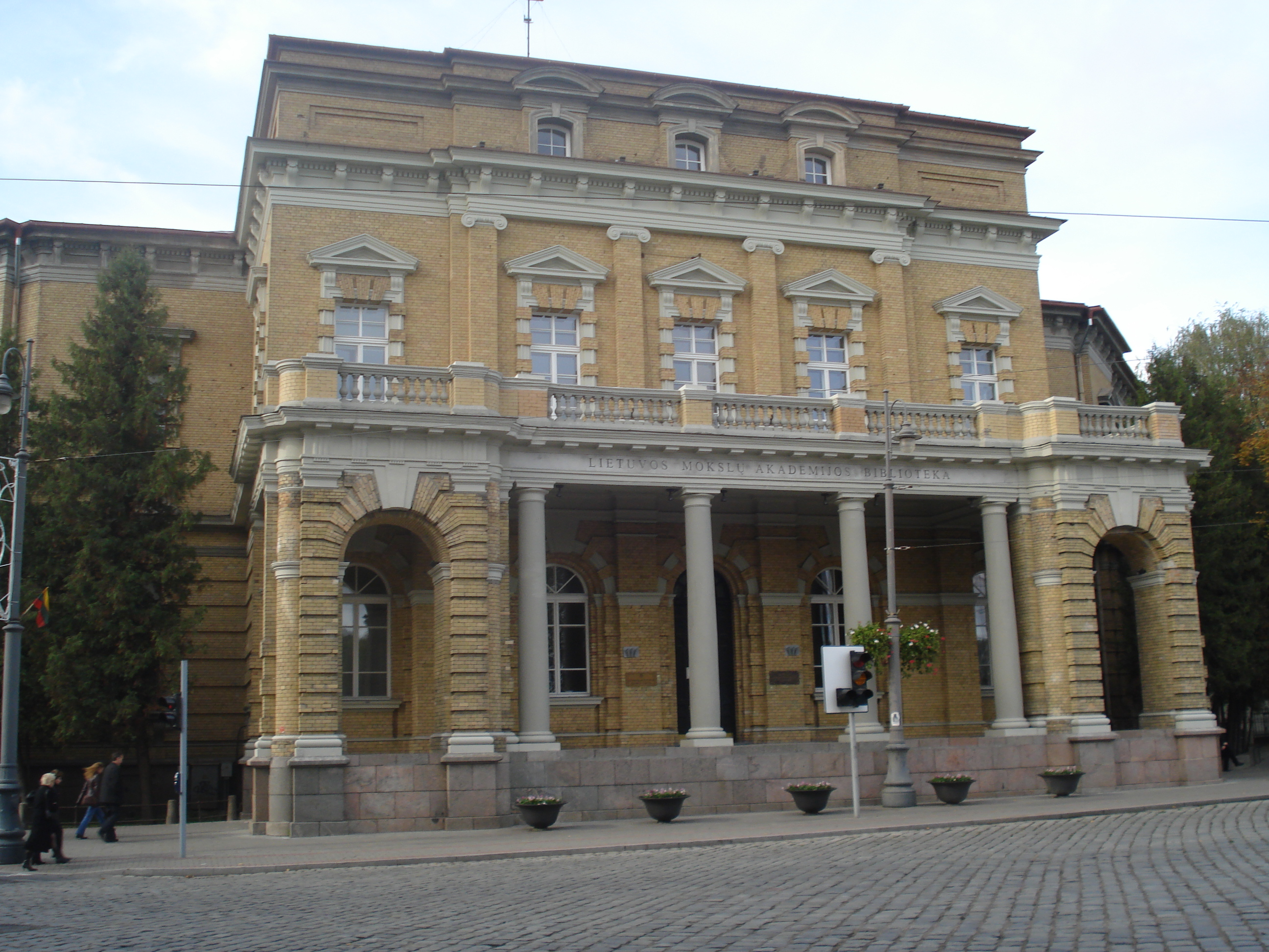 The Library of the Lithuanian Academy of Sciences (Žygimantų 1/8). Build 1885 as palace of Klementyna Tyszkiewicz. Architect Kiprianas Maciulevičius.